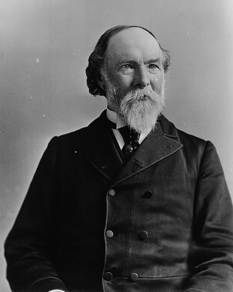 Andrew Archibald Macdonald, from Archives Canada [1]